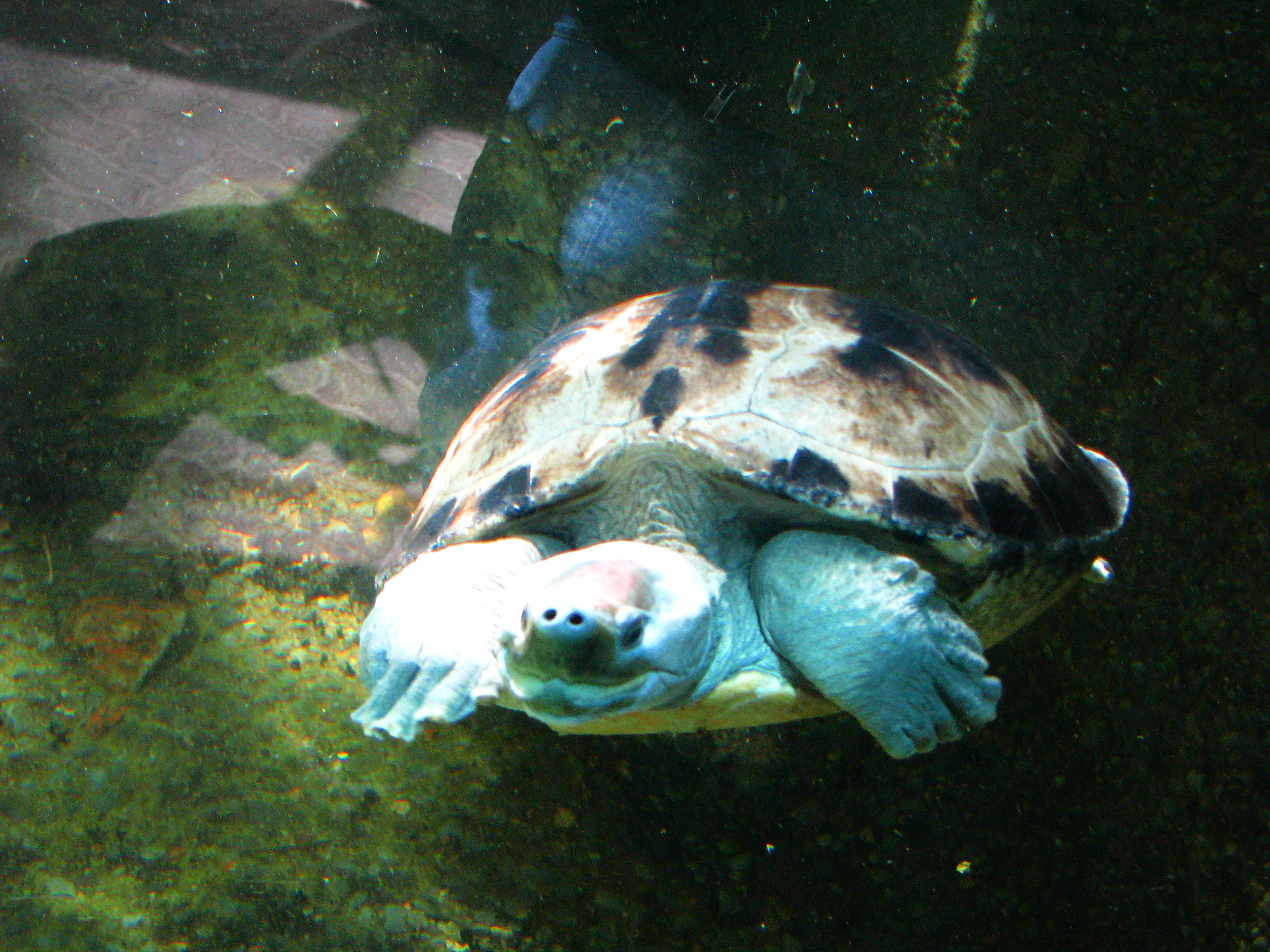 A Painted Batagur at Toronto Zoo, Ontario, Canada.